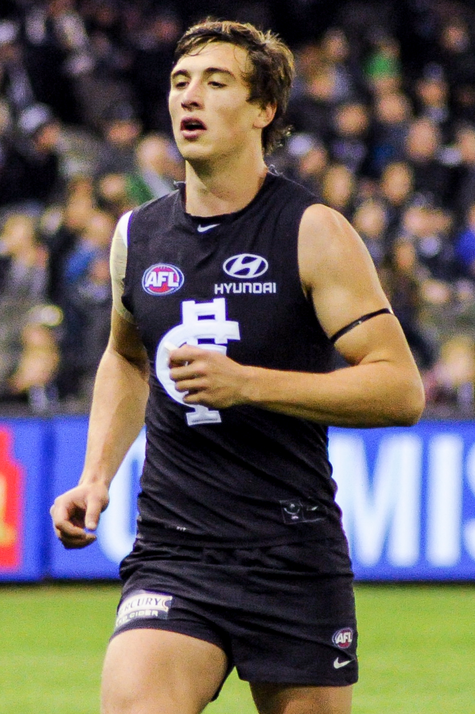 Caleb Marchbank during the AFL round twelve match between Carlton and Greater Western Sydney on 11 June 2017 at Etihad Stadium in Melbourne, Victoria.